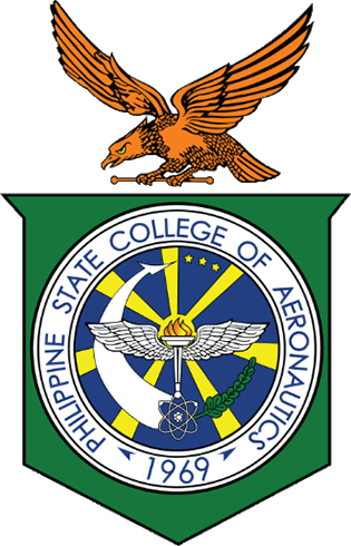 Seal of the Philippine State College of Aeronautics